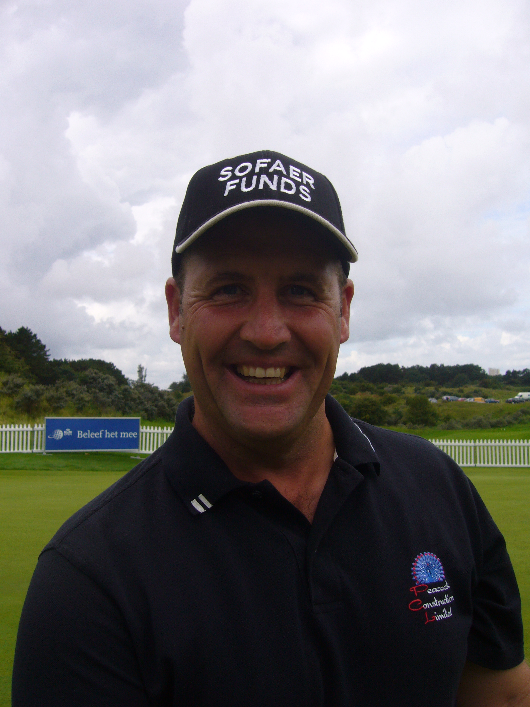 John Bickerton, English golfprofessional